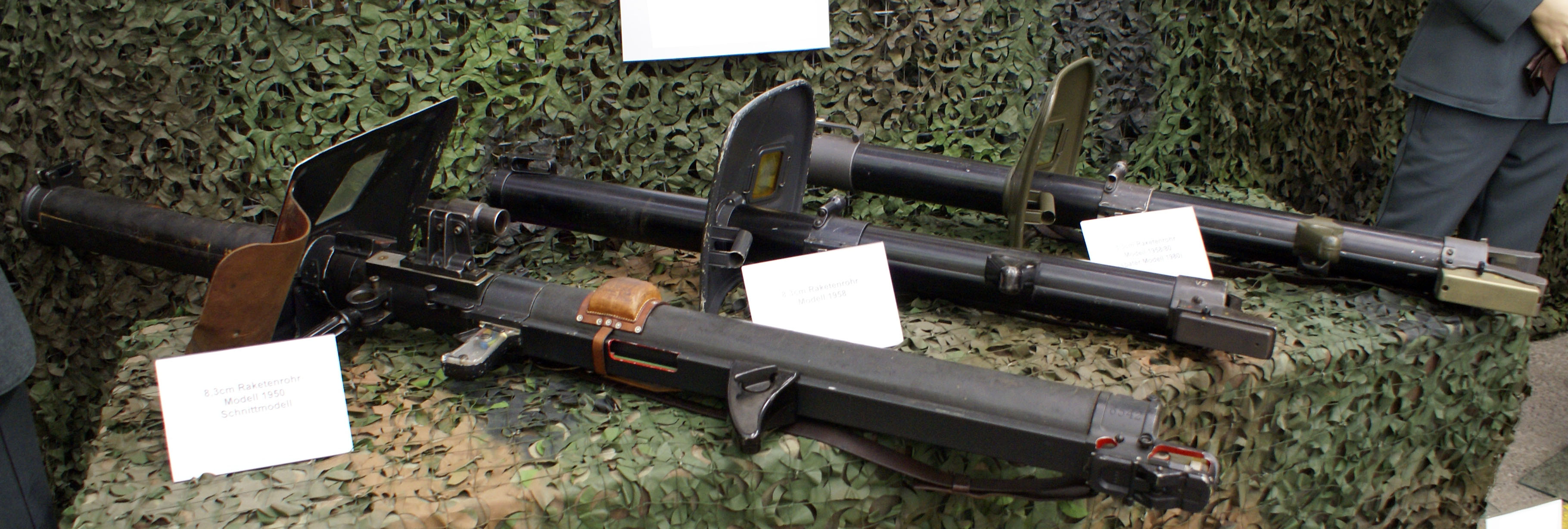 Swiss Army 8.3cm rocket propelled grenades, Swiss Army Museum. From left to right: model 1950, cutaway model 1958 model 1958/80